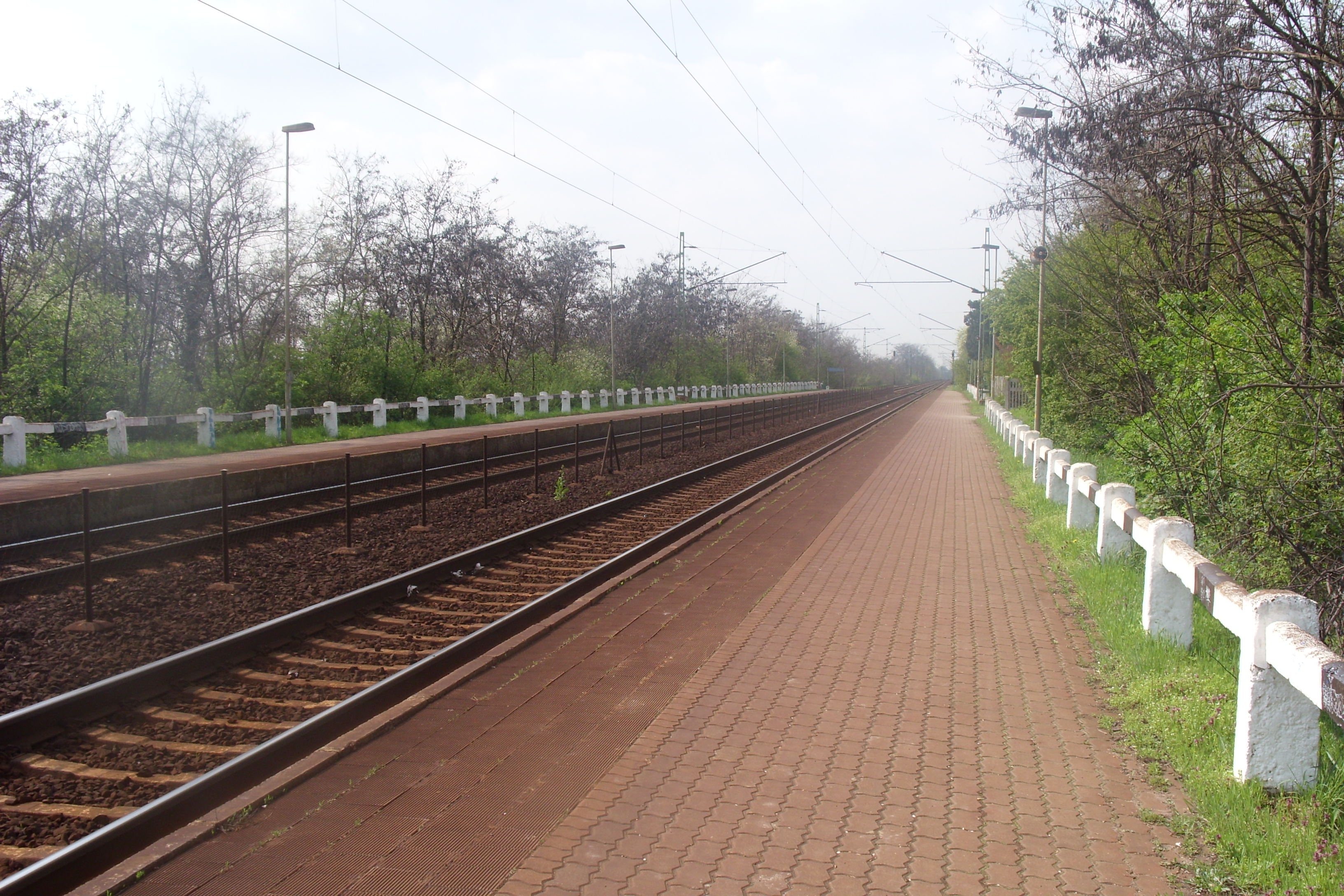 Rákoskert railway station, Budapest, Hungary